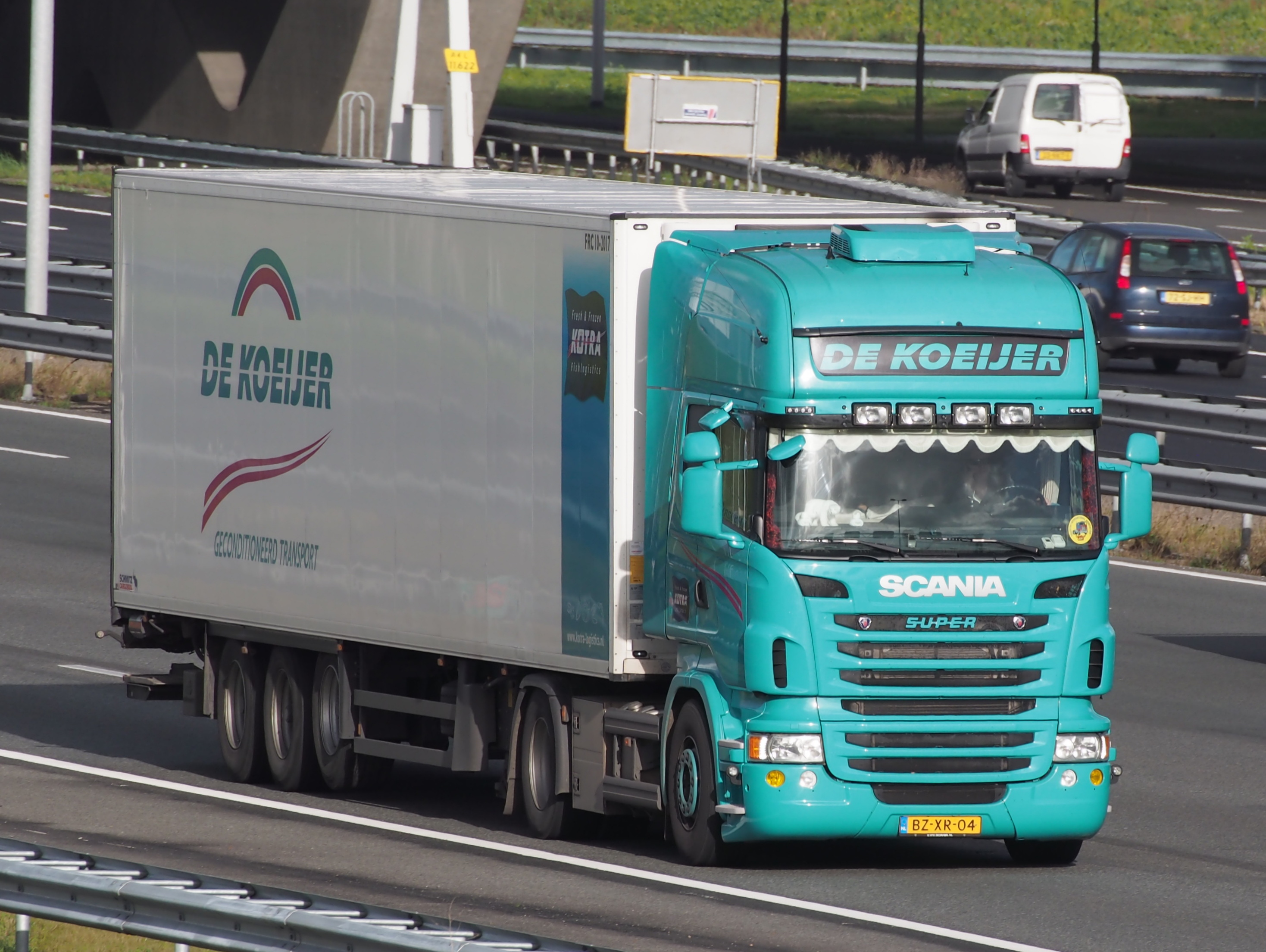 Photographed on the A4 near Hoofddorp, The Netherlands.